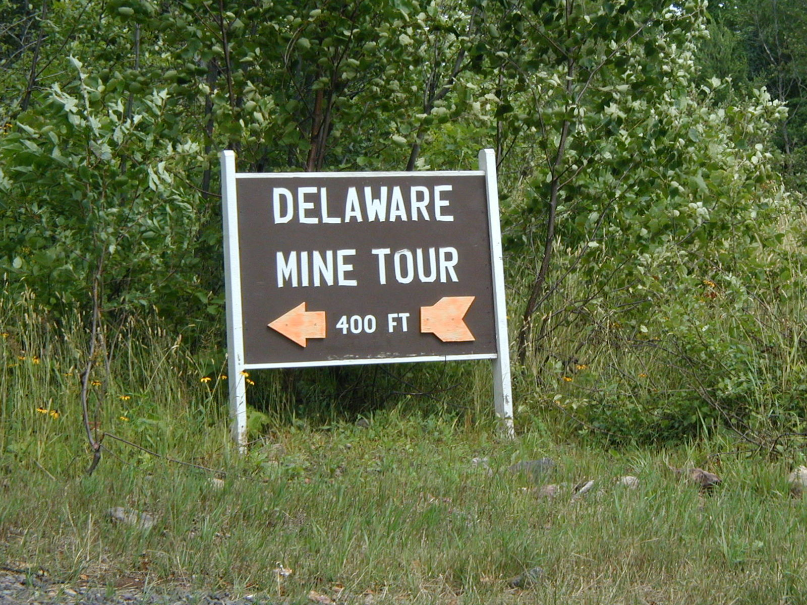 Sign for the Delaware mine